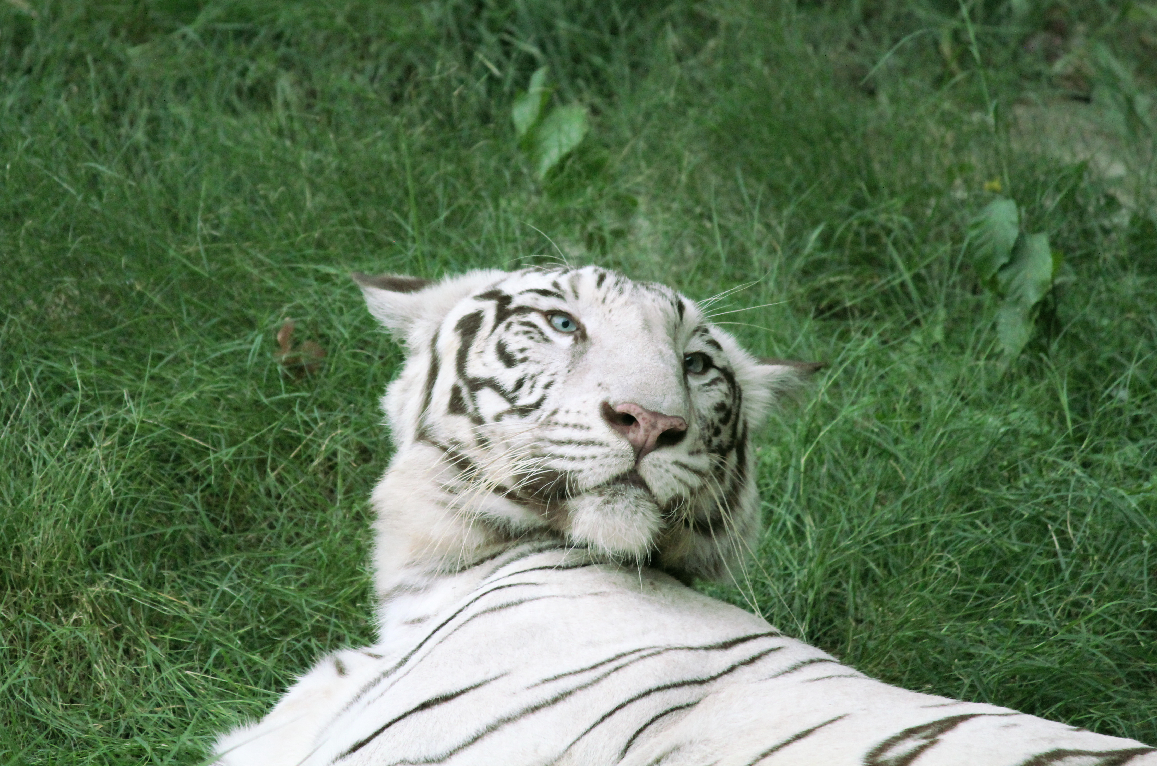 The white tiger is a pigmentation variant of the Bengal tiger